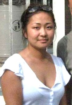 Actress Misheel Jargalsajkhan.